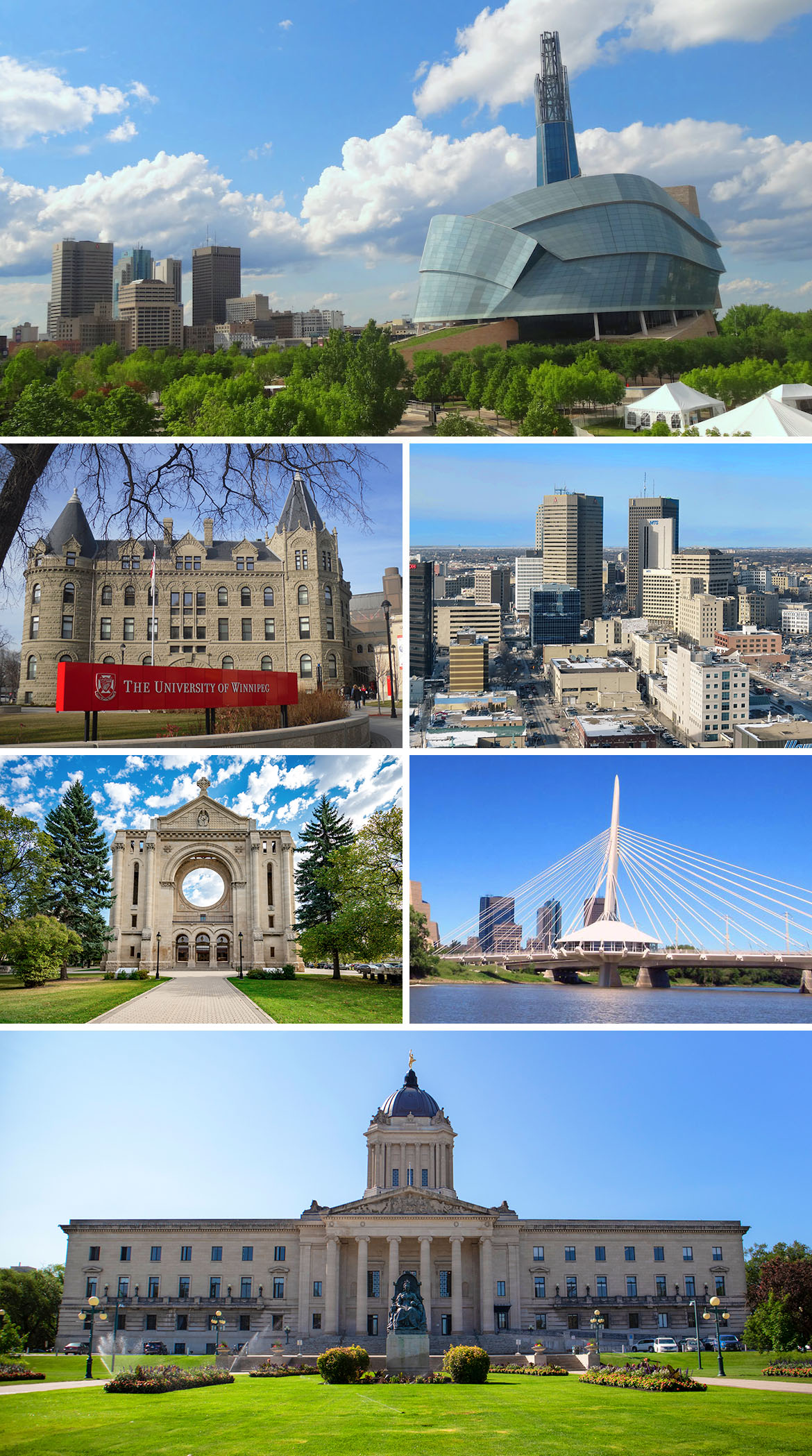 This is a montage of Winnipeg for 2020